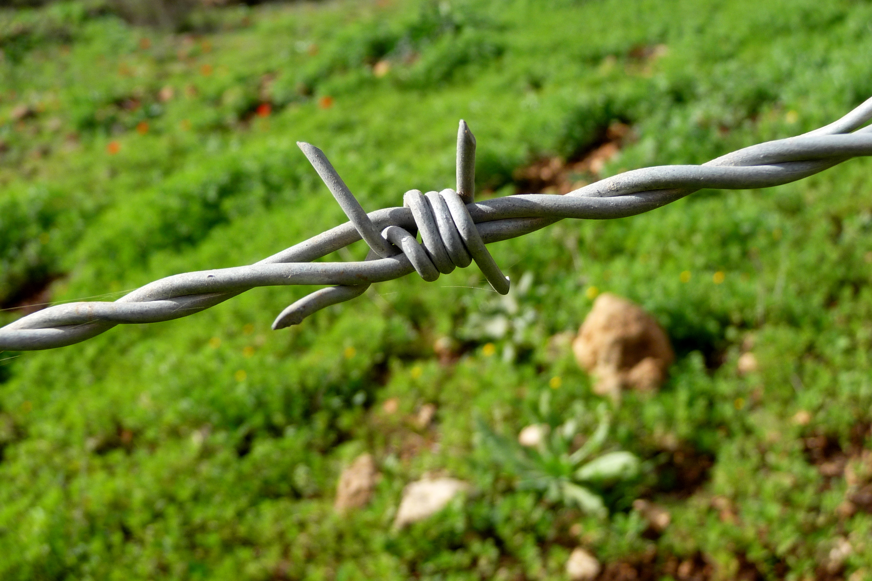 Carmel Park